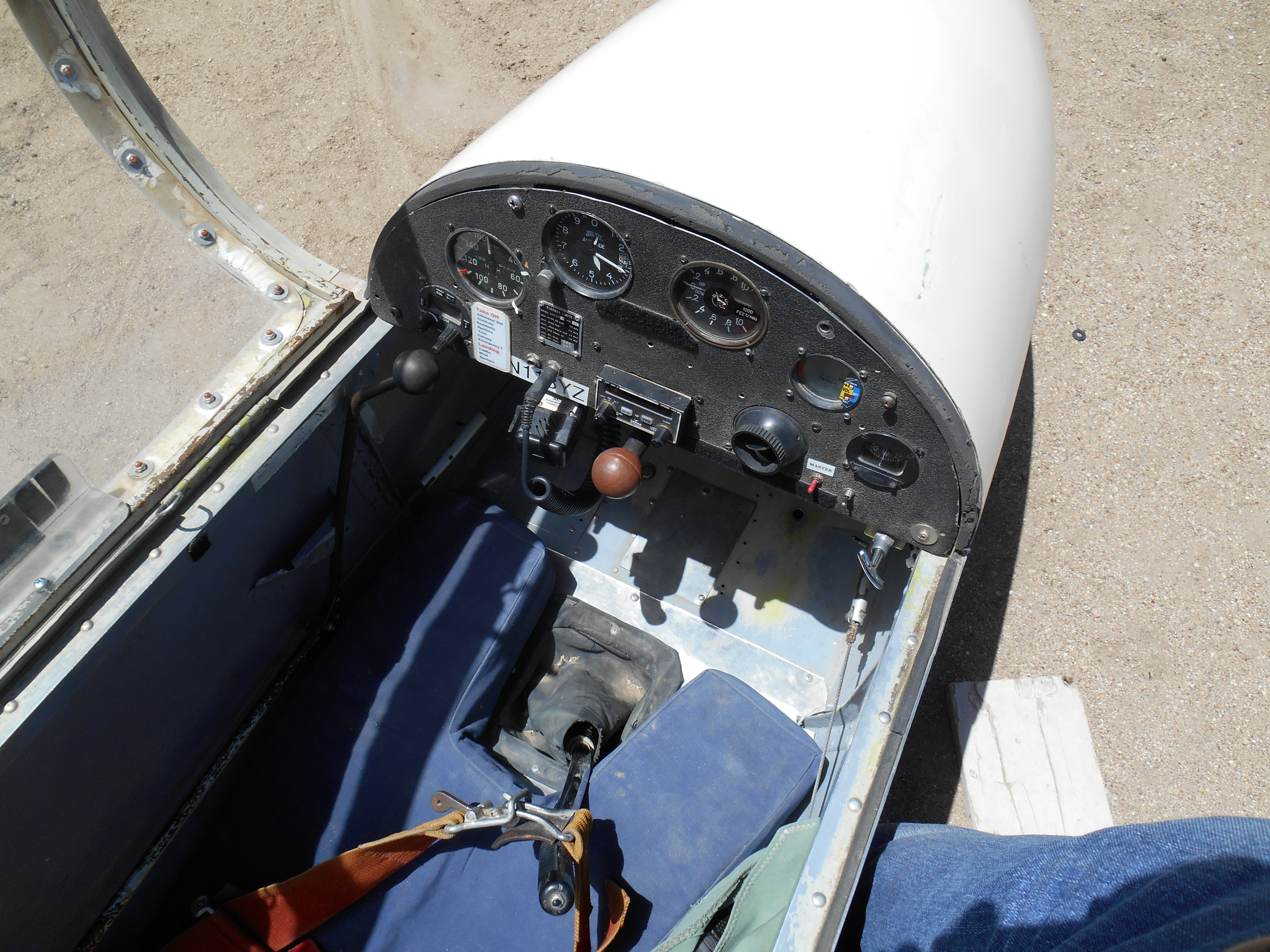 Schweizer SGS 1-26 showing pilot controls and instruments.